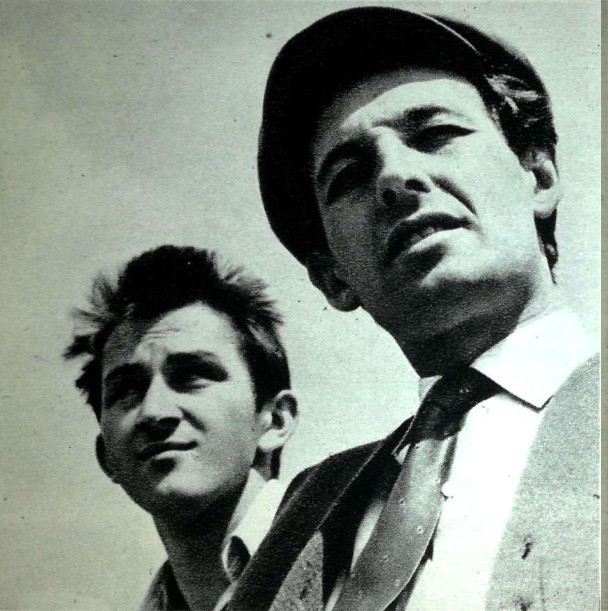 Two Polish directors, Kazimierz Kutz and Andrzej Wajda, during the development of a 1957 film Kanal.